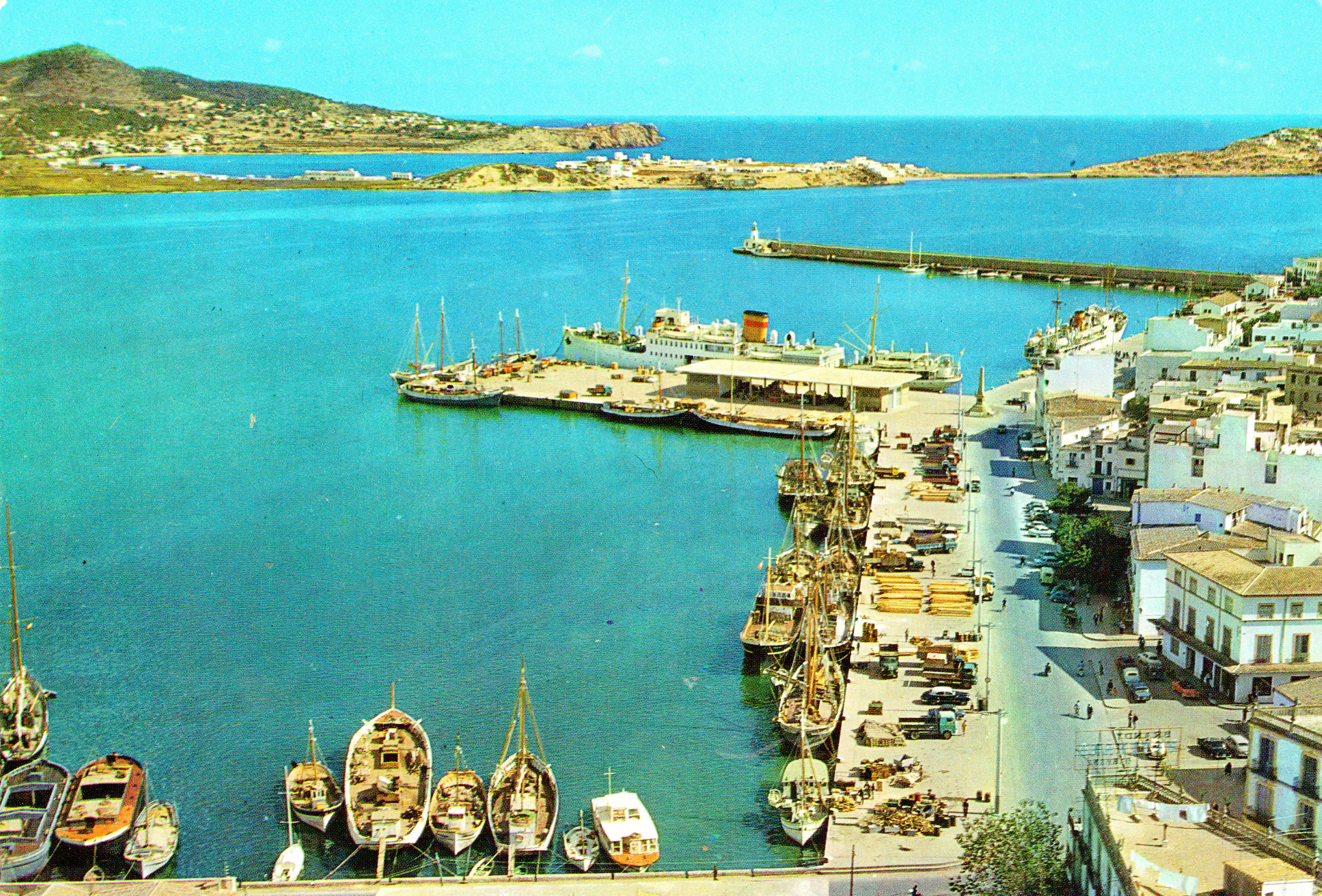 Scanned copy of an original print photograph of the Port Area in the town of Ibiza, Spain. Taken in 1965 by Mr R Robinson